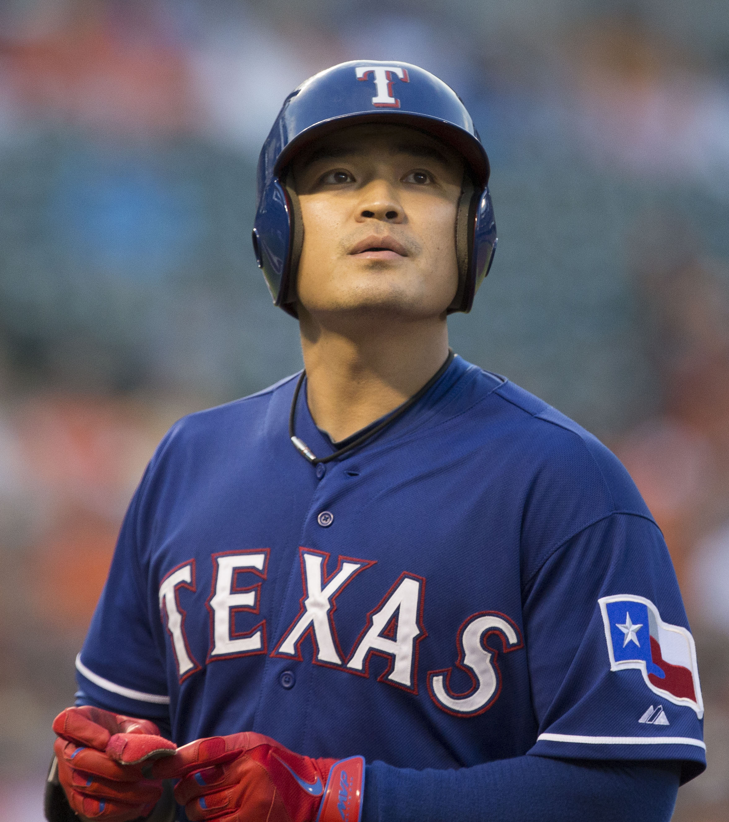 Rangers at Orioles July 1, 2014